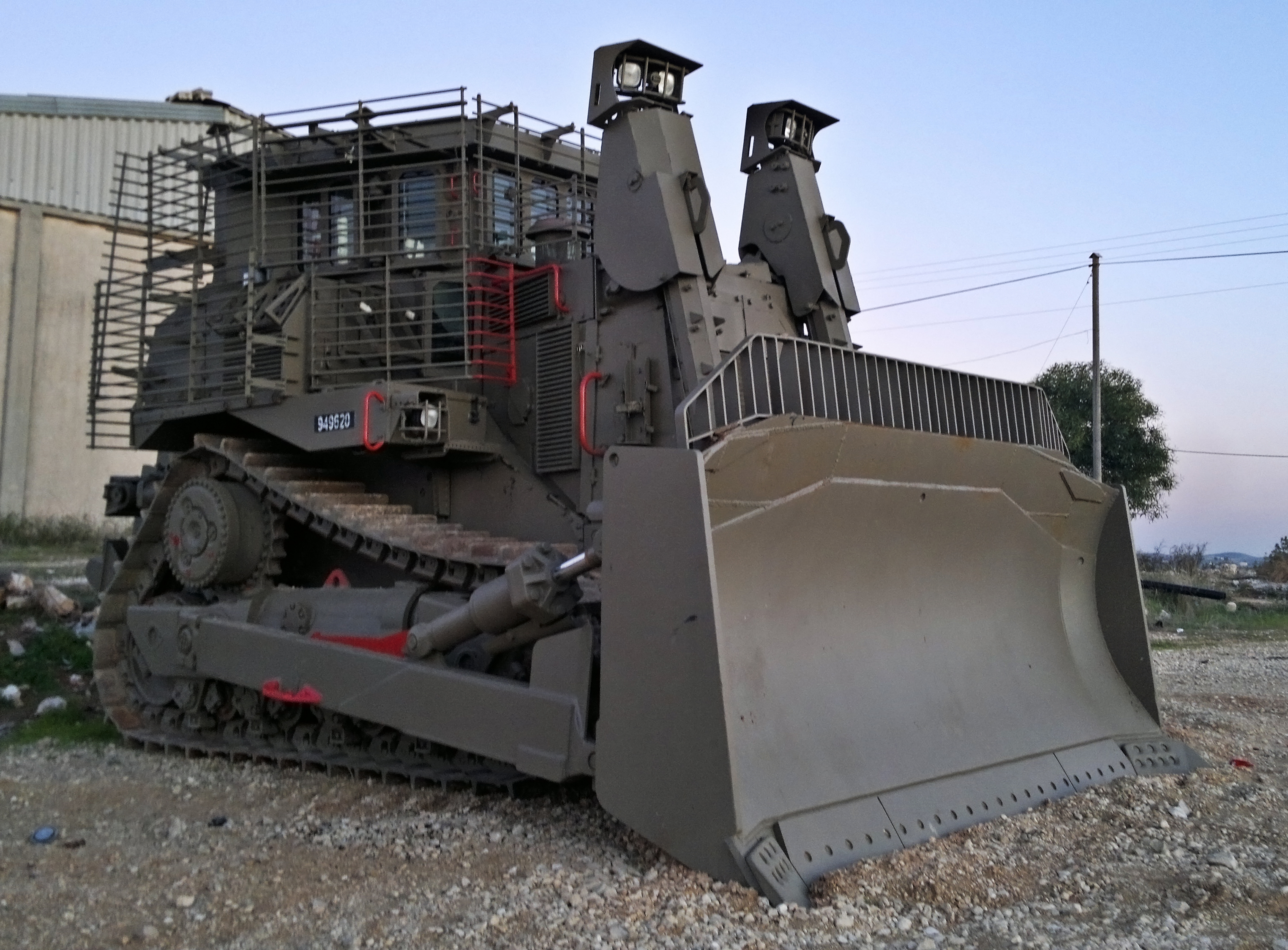 IDF Caterpillar D9R armored bulldozer